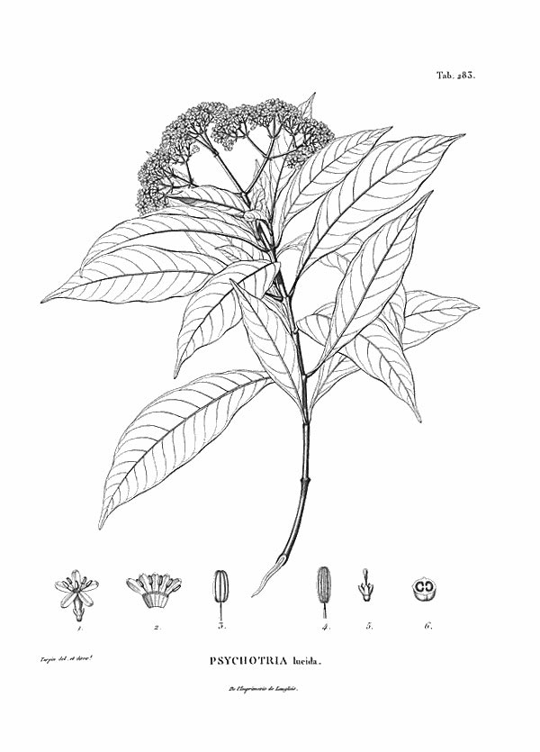 Illustration of PSYCHOTRIA anceps 284 (Psychotria anceps Kunth, )